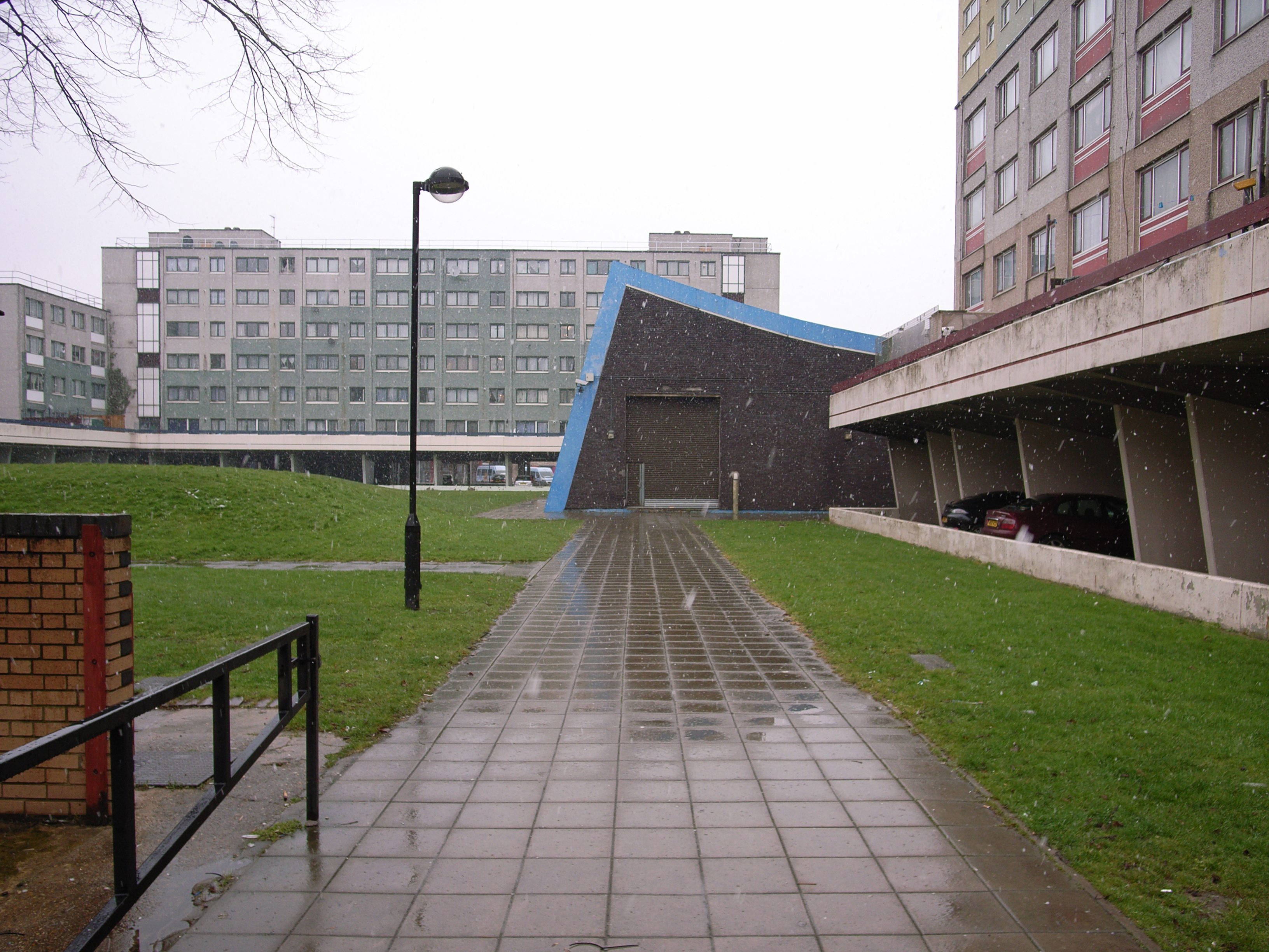 The Broadwater Farm Estate (1966-71) by Haringey Borough Architect's Dept; photo taken on a walk looking at social housing in Tottenham with the 20th Century Society